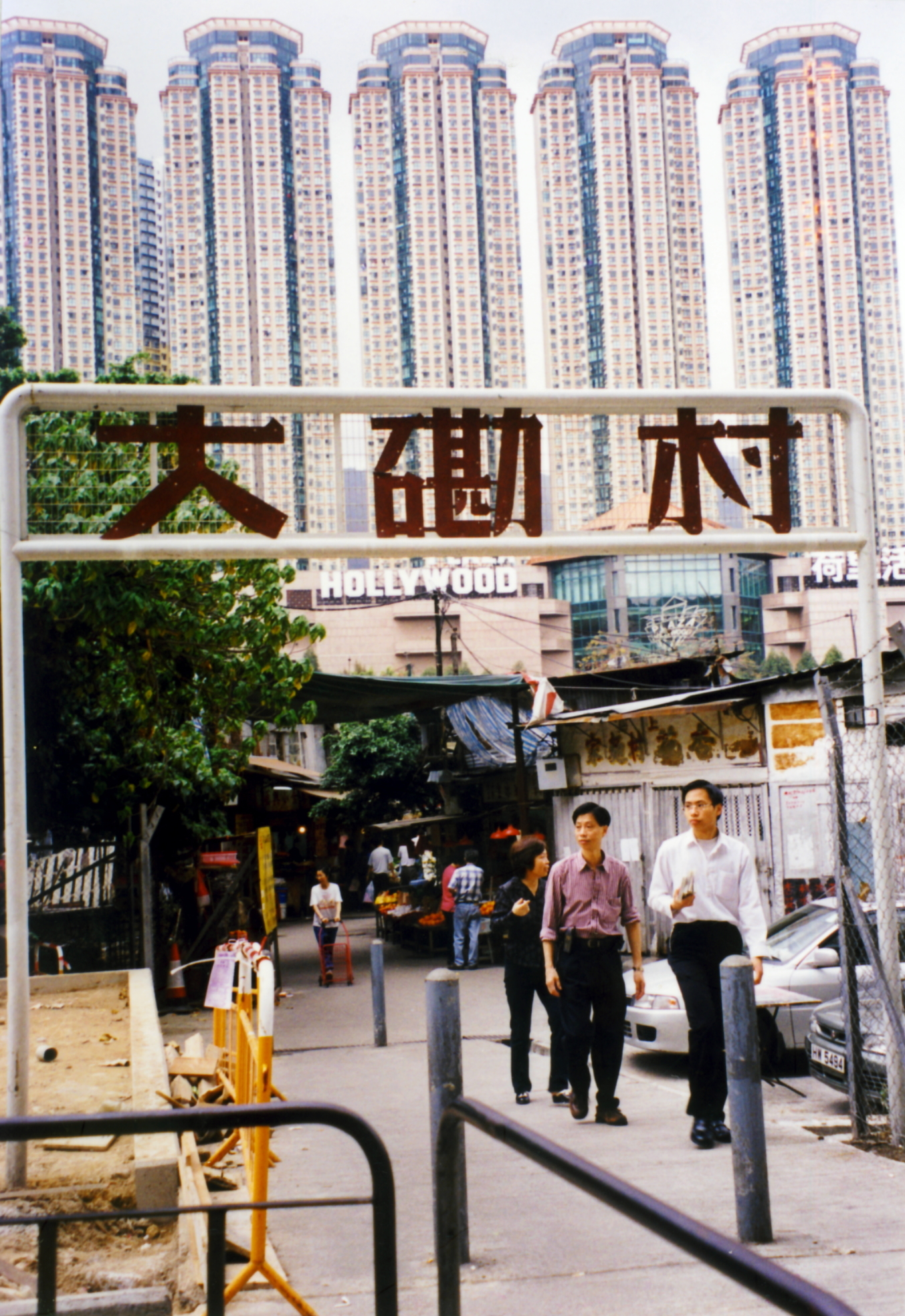 Tai Hom Village Entrance Sign